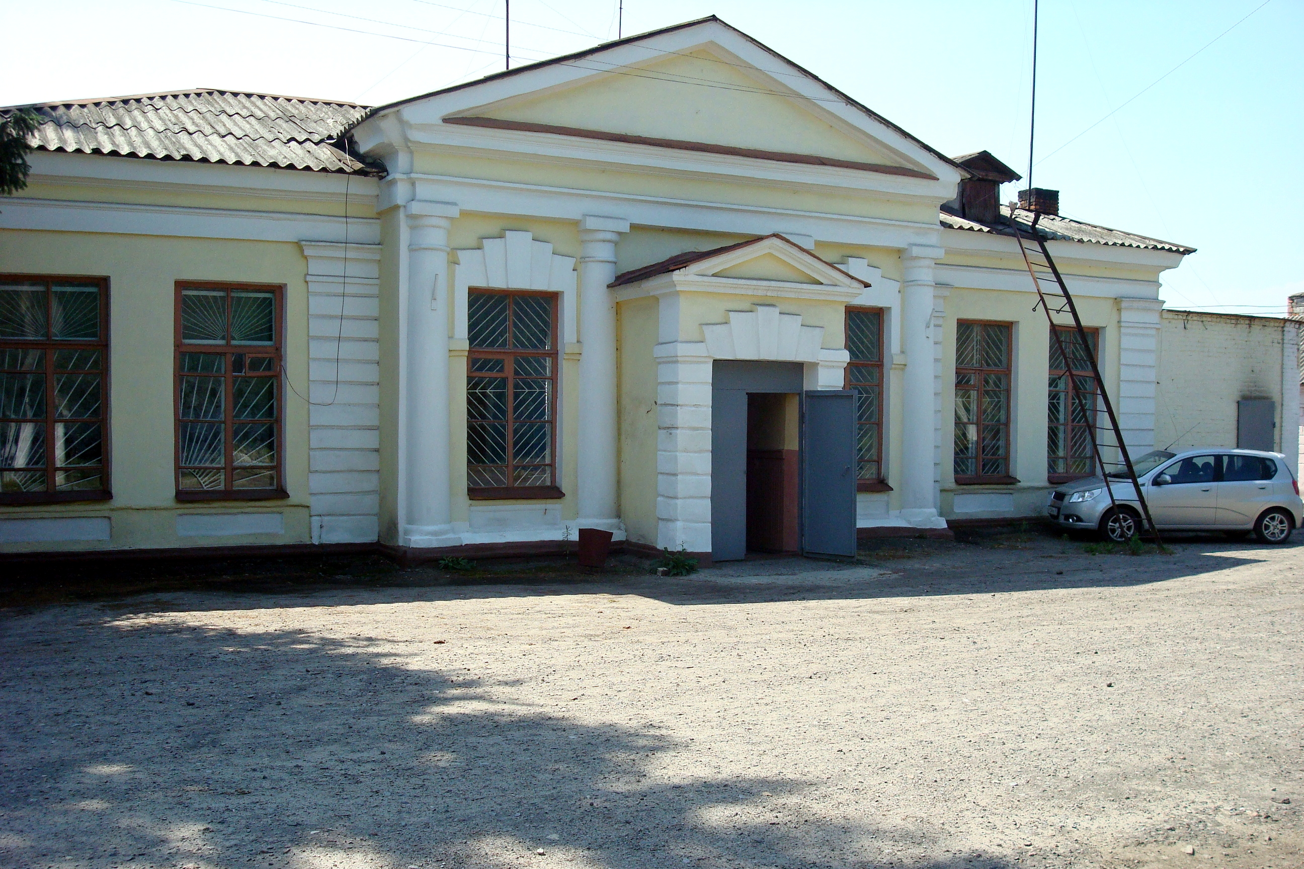 Oboyan Train Station (Southeastern Railway (Kursk Oblast, Russia)). View from city.